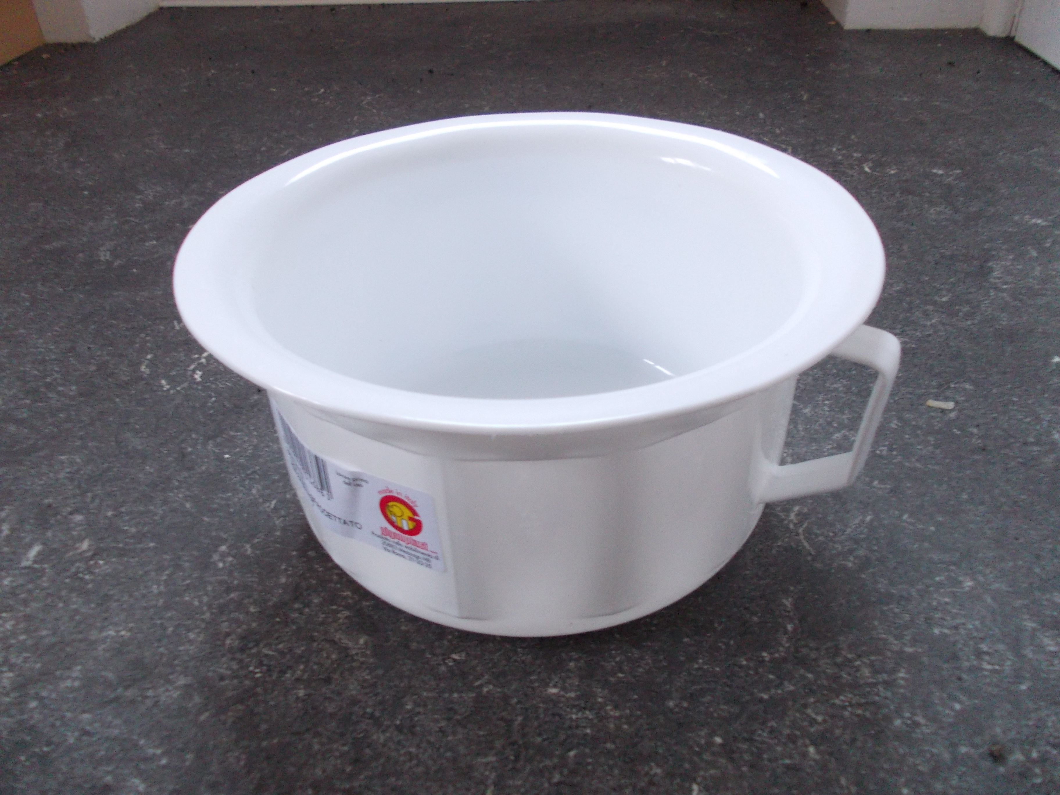 Sturdy, durable, plastic potty that can take the full weight of a child or small adult up to 70 kilograms. Lightweight (0.5 kilograms) and compact (22 cm diameter and 11 cm height) design. Smooth interior for easy cleaning. Slighly fluted exterior for strength. However, it is not a baby's potty, despite being of similar external dimensions. The orifice width is 18 cm (baby potties typically have ones of 10 cm), so this is designed for a bigger bottom. Also, the weight limit is 70 kilograms and baby potties and toilet trainer seats are typically limited to 25 kilograms. Carers should not risk exceeding the weight limit of baby potties and toilet training seats, as they often are of flimsy construction and can break. This potty is ideal for days out and overnight stops.